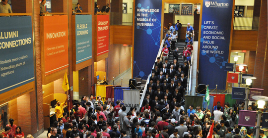 Wharton undergraduate students in cohorts